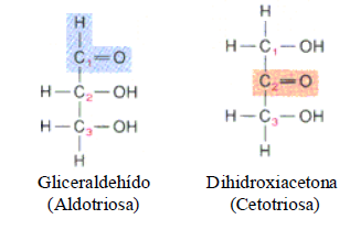 Los monosacáridos más simples son triosas, de las cuales existen una aldotriosa, el gliceraldehído, y una cetotriosa, la dihidroxiacetona.